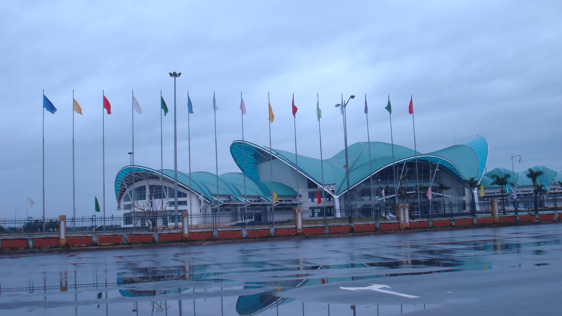 The Đà Nẵng Fair and Exhibition Centre, Da Nang city.